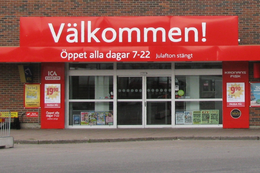 Shop opening hours in Sweden